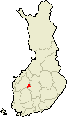 Own work, location of Ähtäri, Finland